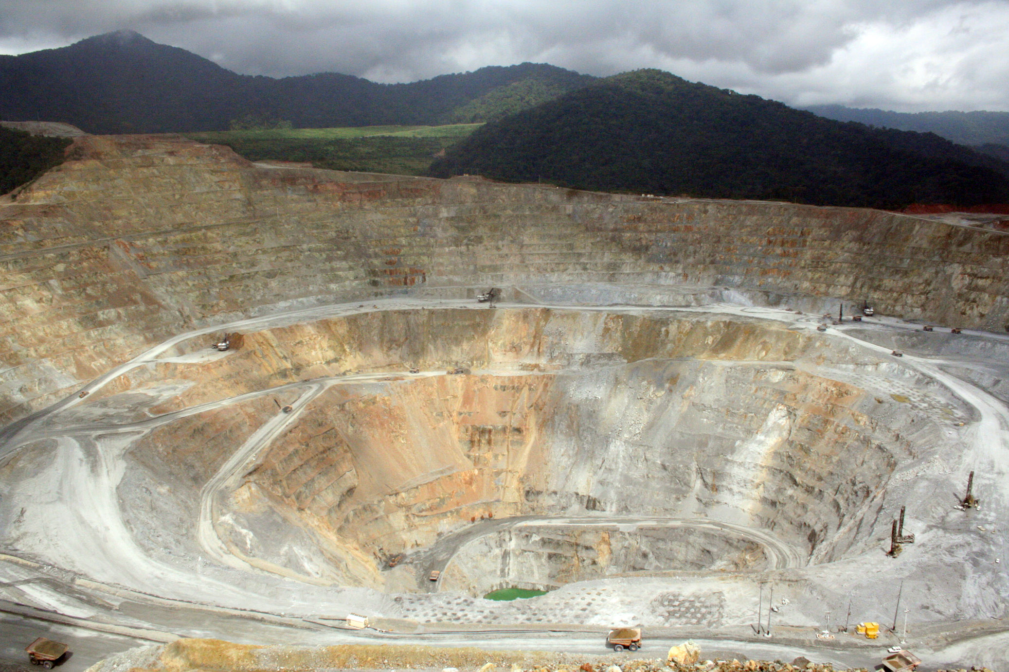 View of the Batu Hijau mine from the viewing platform. The ultimate pit, when mining has completed, will be considerably larger.